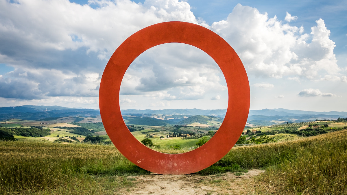 500px provided description: If you like my pictures please support me buying a print from my shop thanks! You can follow me on [#sky ,#landscape ,#red ,#nature ,#sun ,#light ,#clouds ,#europe ,#outdoor ,#architecture ,#view ,#photo ,#fuji ,#art ,#green ,#photography ,#blu ,#tuscany ,#pisa ,#fujifilm ,#volterra ,#geotagged ,#tondo ,#staccioli ,#xt10 ,#mauro staccioli ,#pieno ,#fujix ,#fujixt10 ,#fuji xt10]